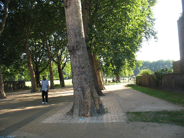 Entrance to Deptford Park. The entrance to the park 1449602 from Evelyn Street.